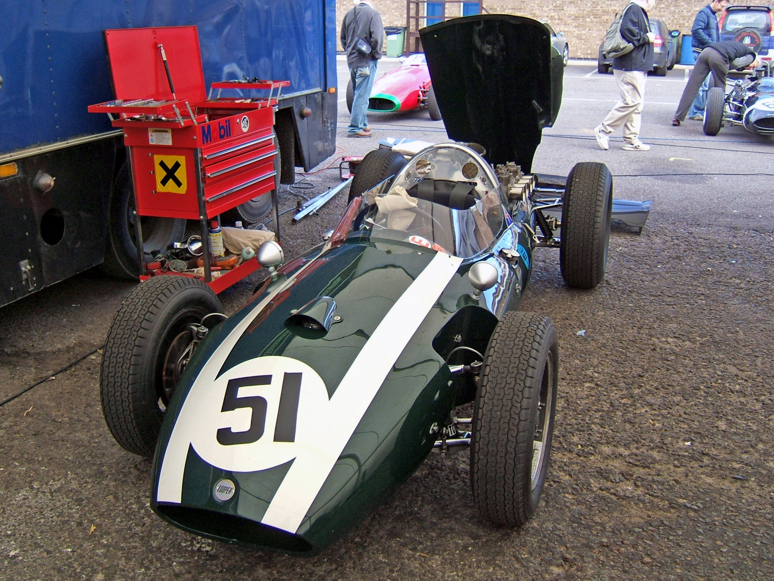 A Cooper T51 waiting for attention with its engine cover open, in the paddock of the VSCC SeeRed race meeting, Donington Park, September 2007.